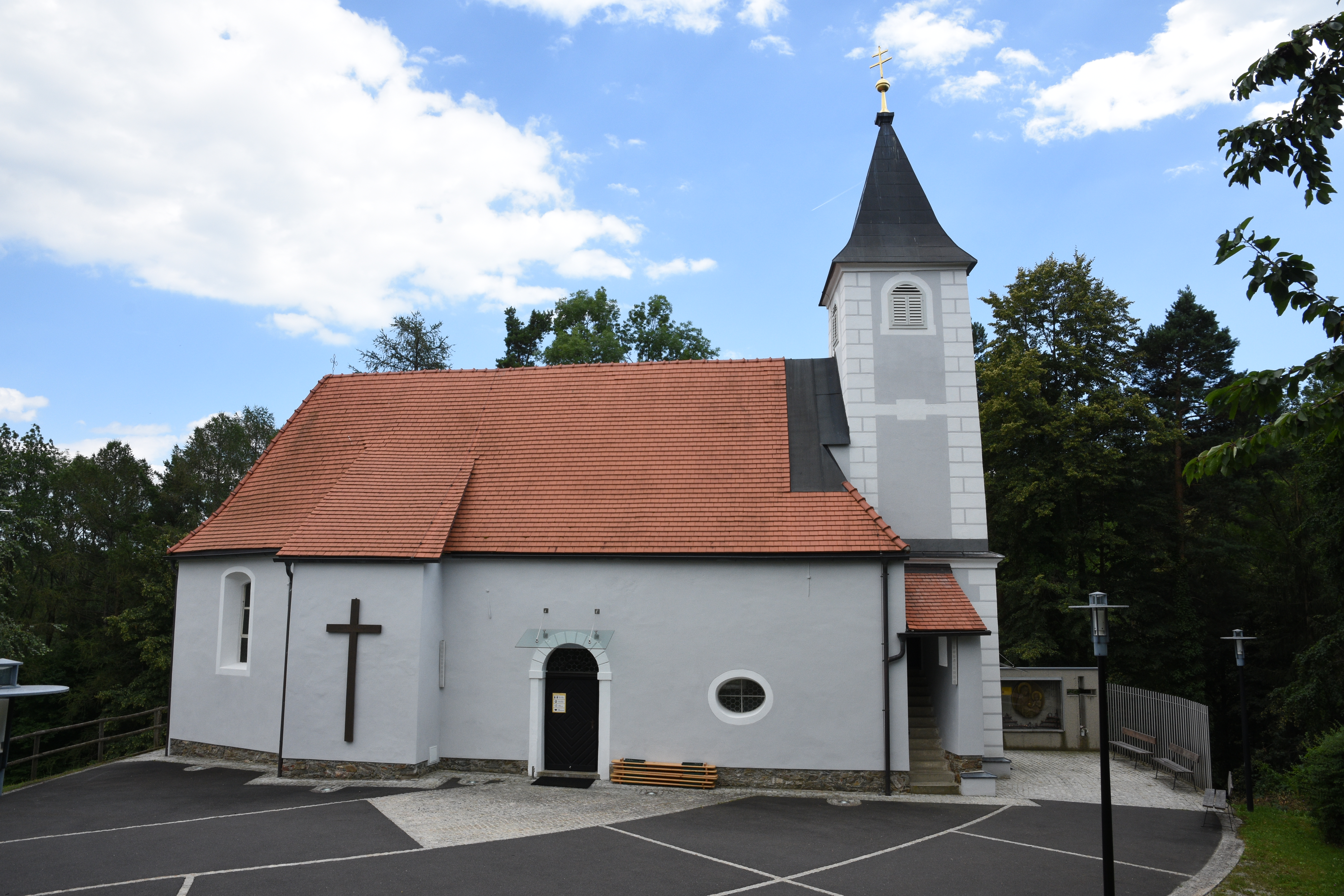 Saint John the Baptist Church Eichberg Styria